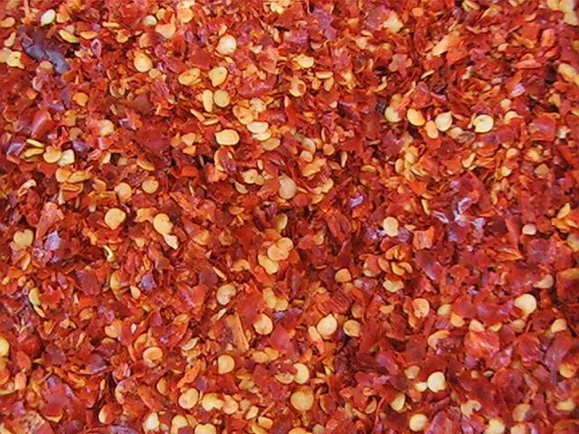 Crushed red pepper in bulk. Photo taken in a spice market in Tel Aviv, Israel, with a JVC GZ-MG21 digital camera.